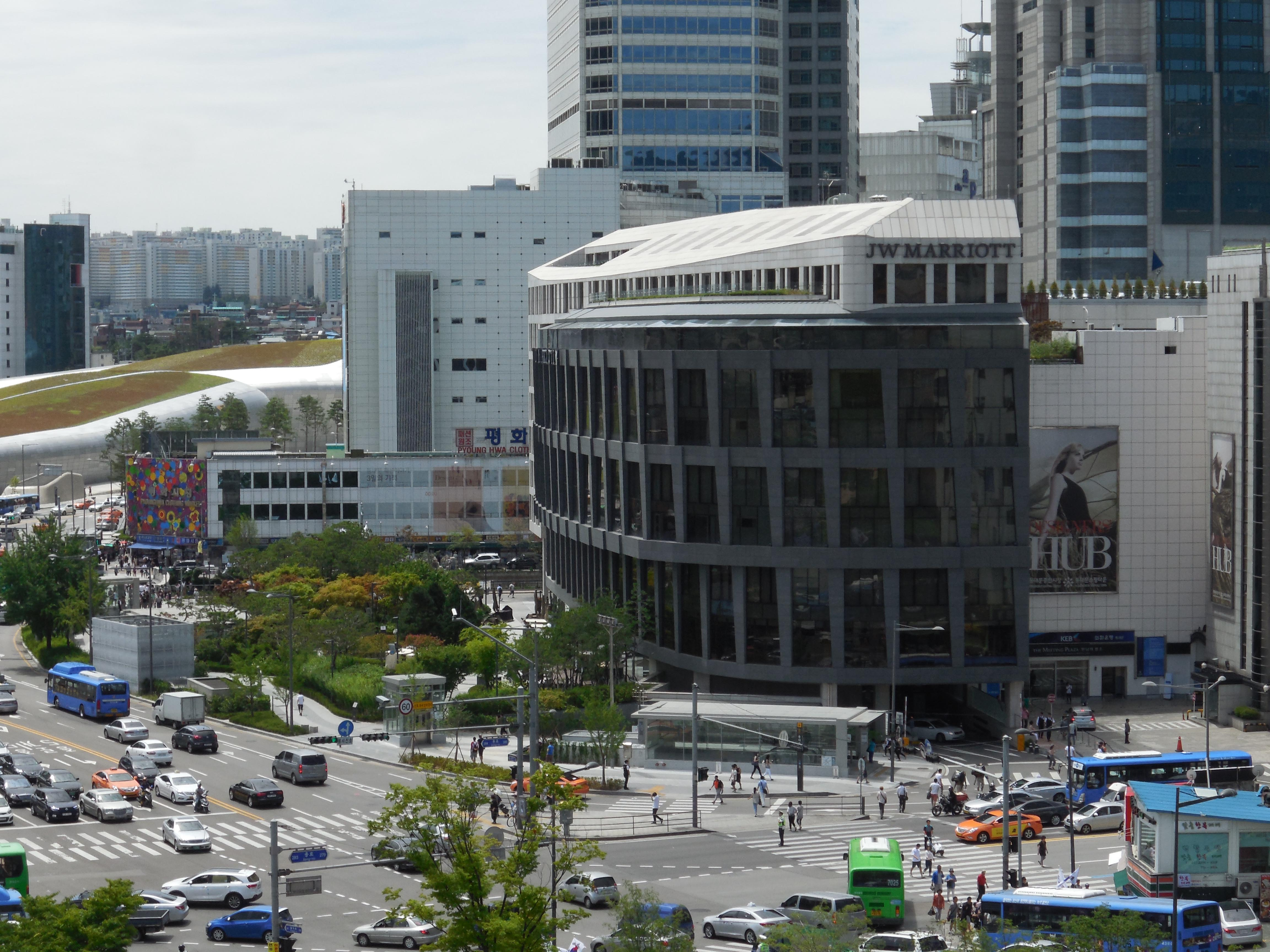 JW Marriott Dongdaemun Square Seoul